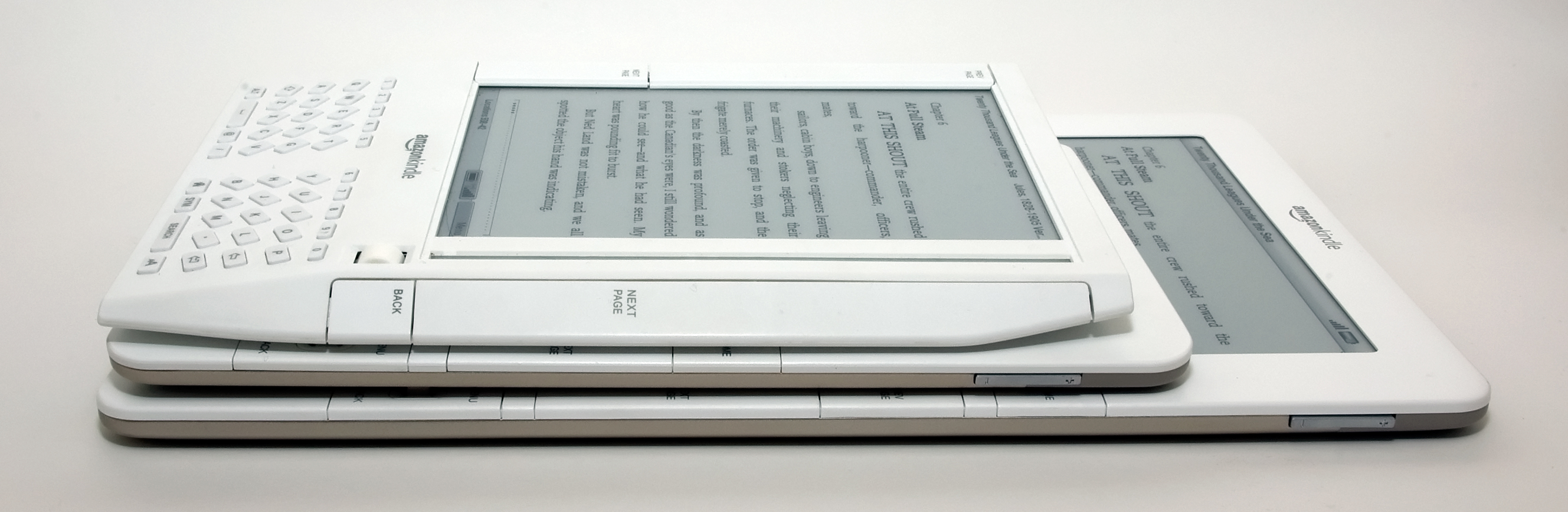 Three Generations of the Amazon Kindle: Amazon Kindle, Kindle 2 and the Kindle DX.